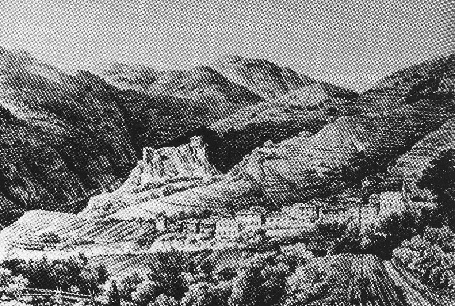 A lithoraphy by Basilio Armani, dating 1845 ca., showing the ruins of the Castle of Segonzano, the villages of Piazzo, Parlo, Saletto, Teaio and Sabion and the Church of th Holy Trinity of Stedro